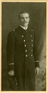 José Mendes Cabeçadas Júnior